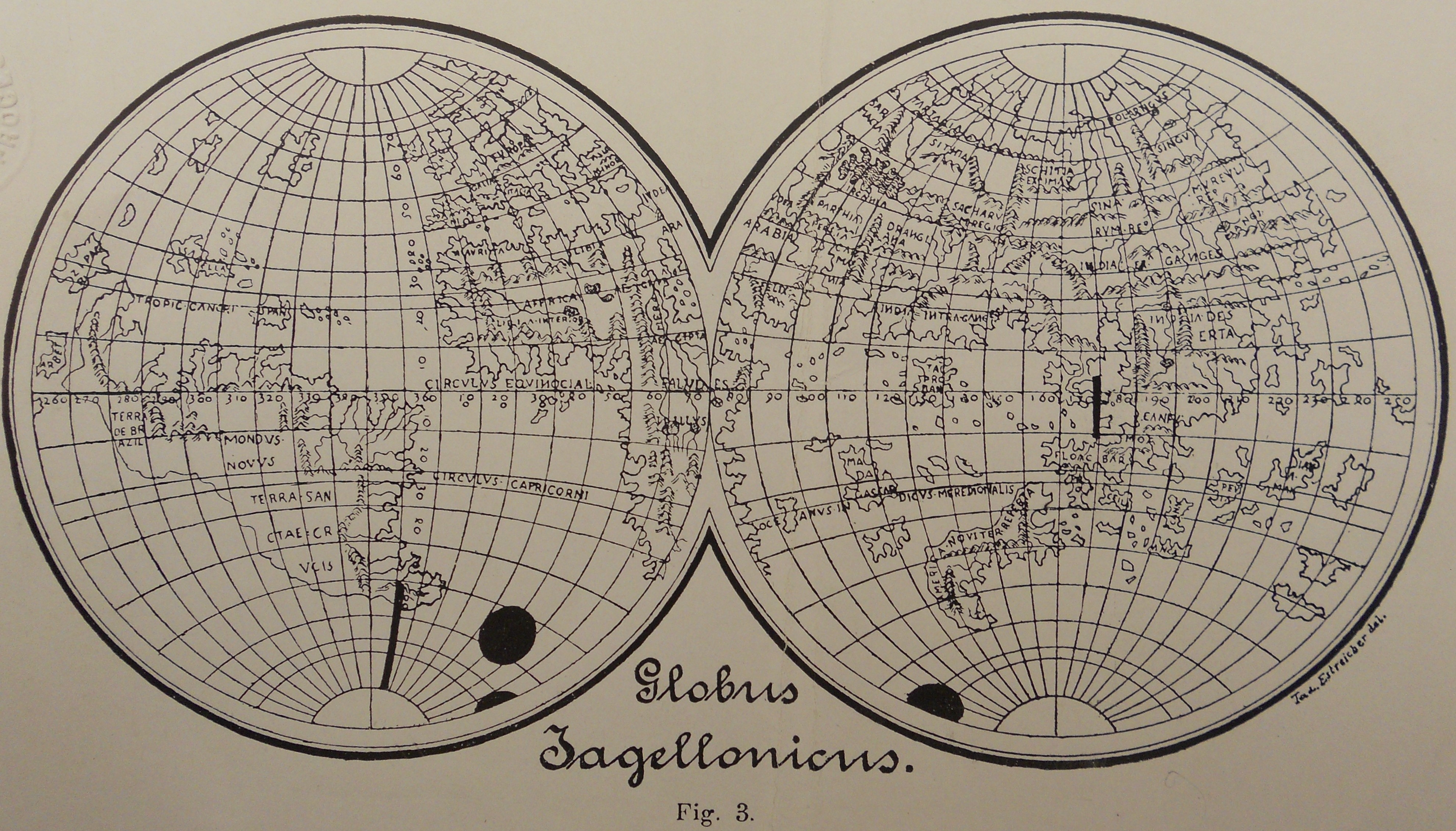 Globus Jagellonicus. Tadeusz Estreicher delineavit. Illustration No. 3 published in Tadeusz Estreicher, Globus Biblioteki Jagiellońskiej z początku wieku XVI, w Krakowie, Nakładem Akademii Umięjetności, 1900.